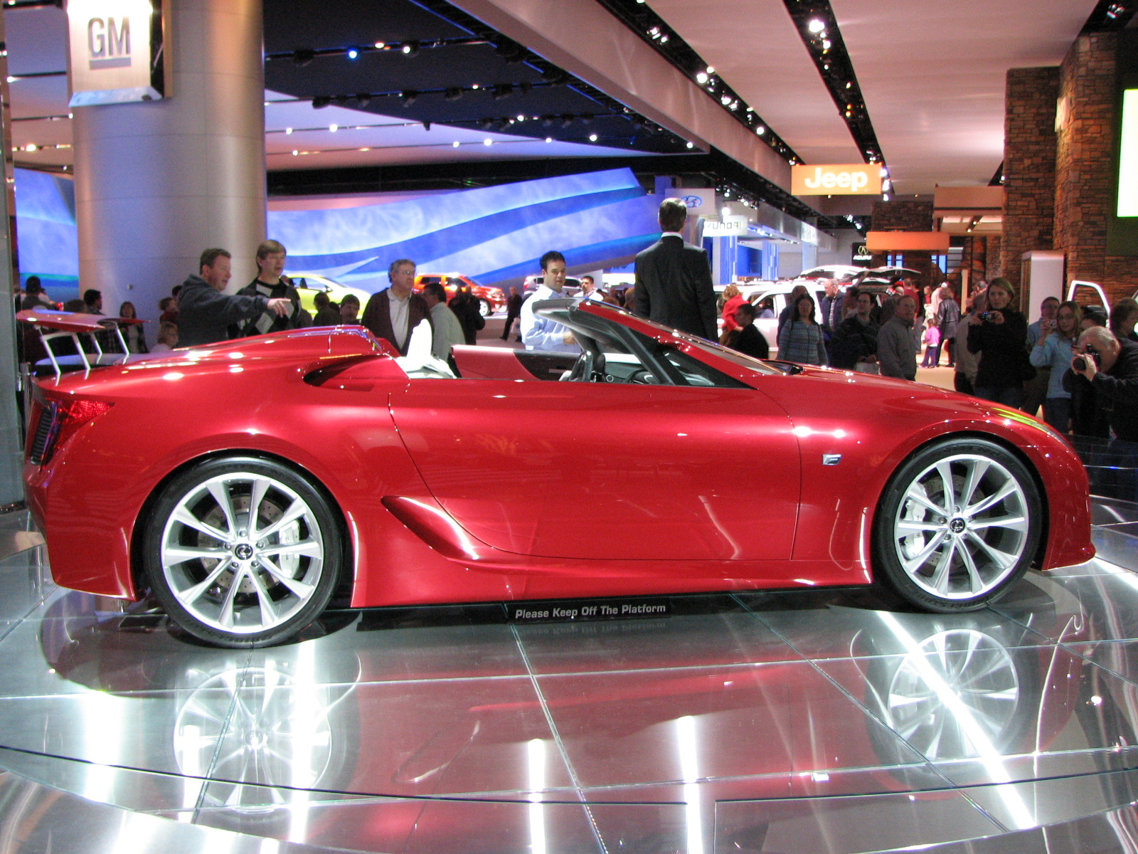 Auto Show, Car, Detroit Auto Show, NAIAS